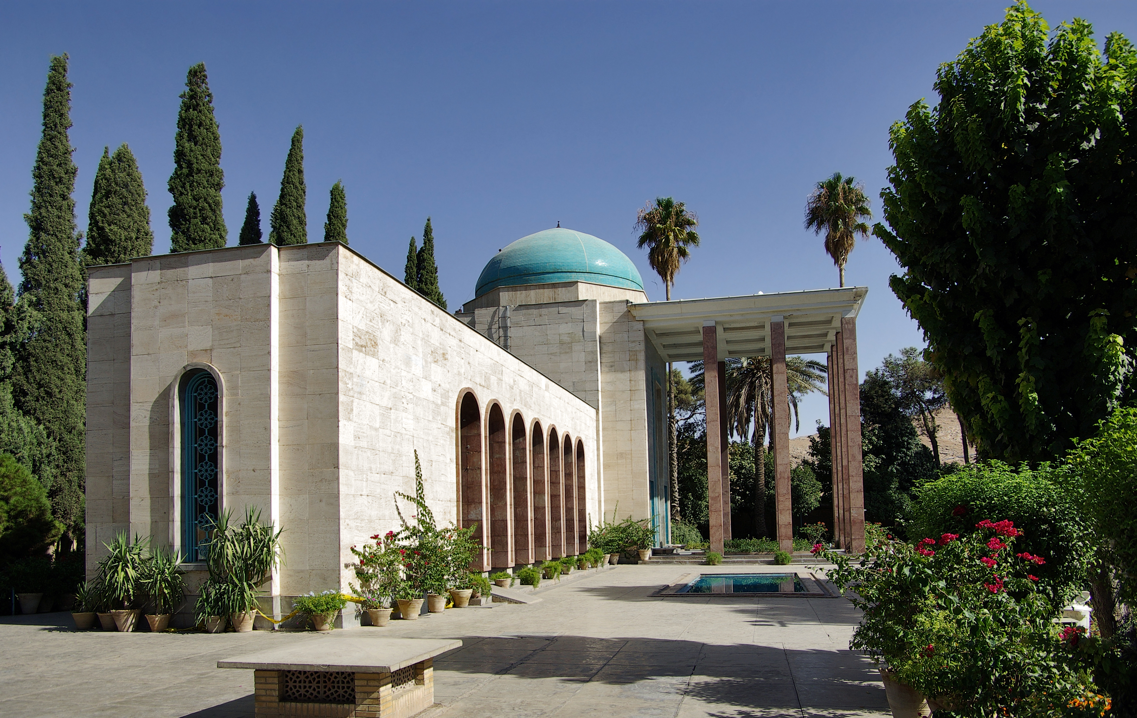 The tomb of Saadi (Aramgah-e-saadi) in Shiraz, Iran